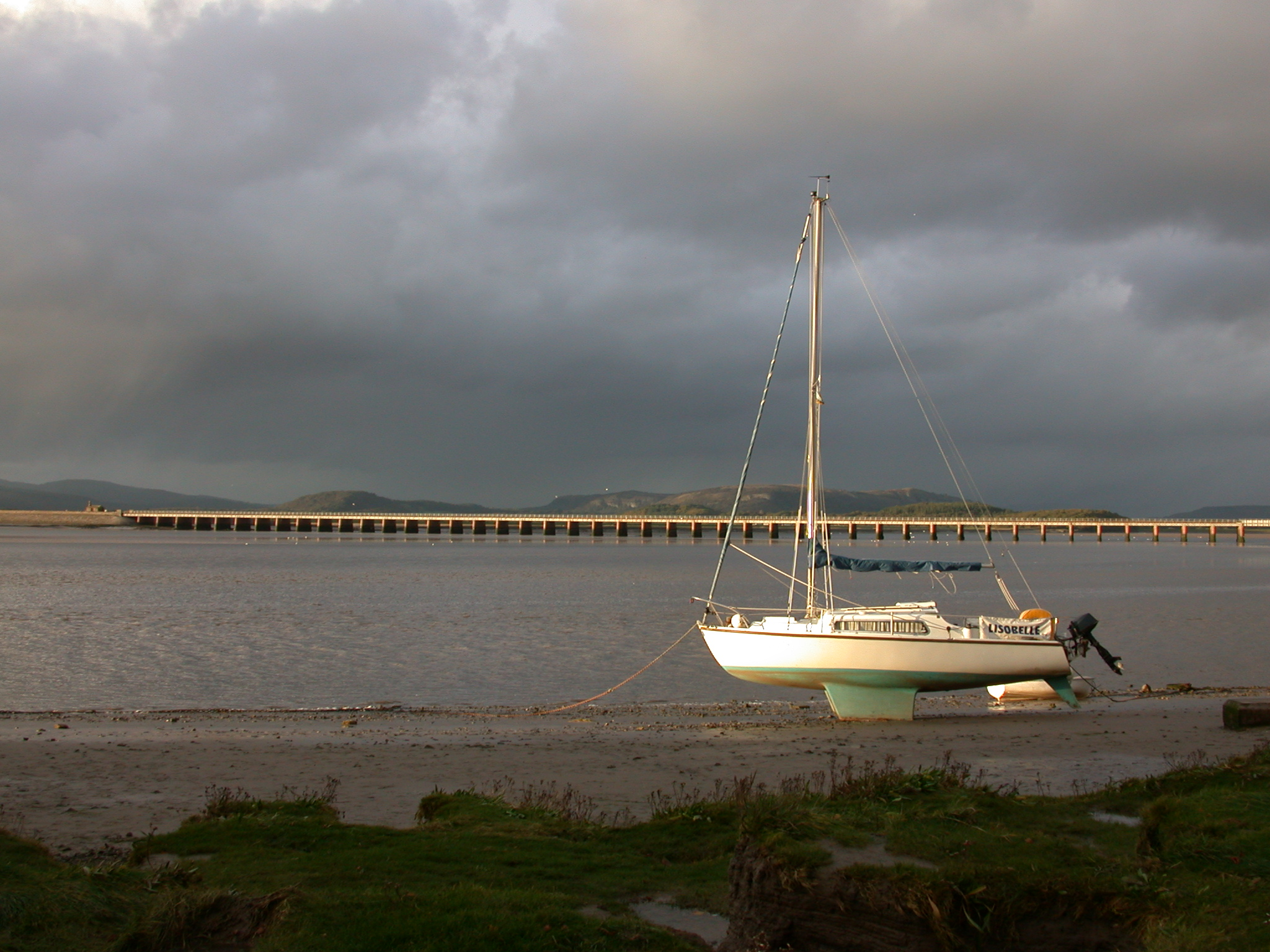 Arnside, Lancashire